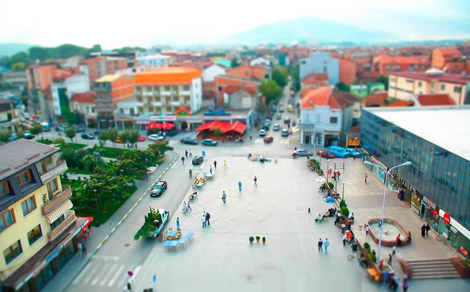 The center of Gostivar City